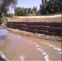 Muro de Gavión